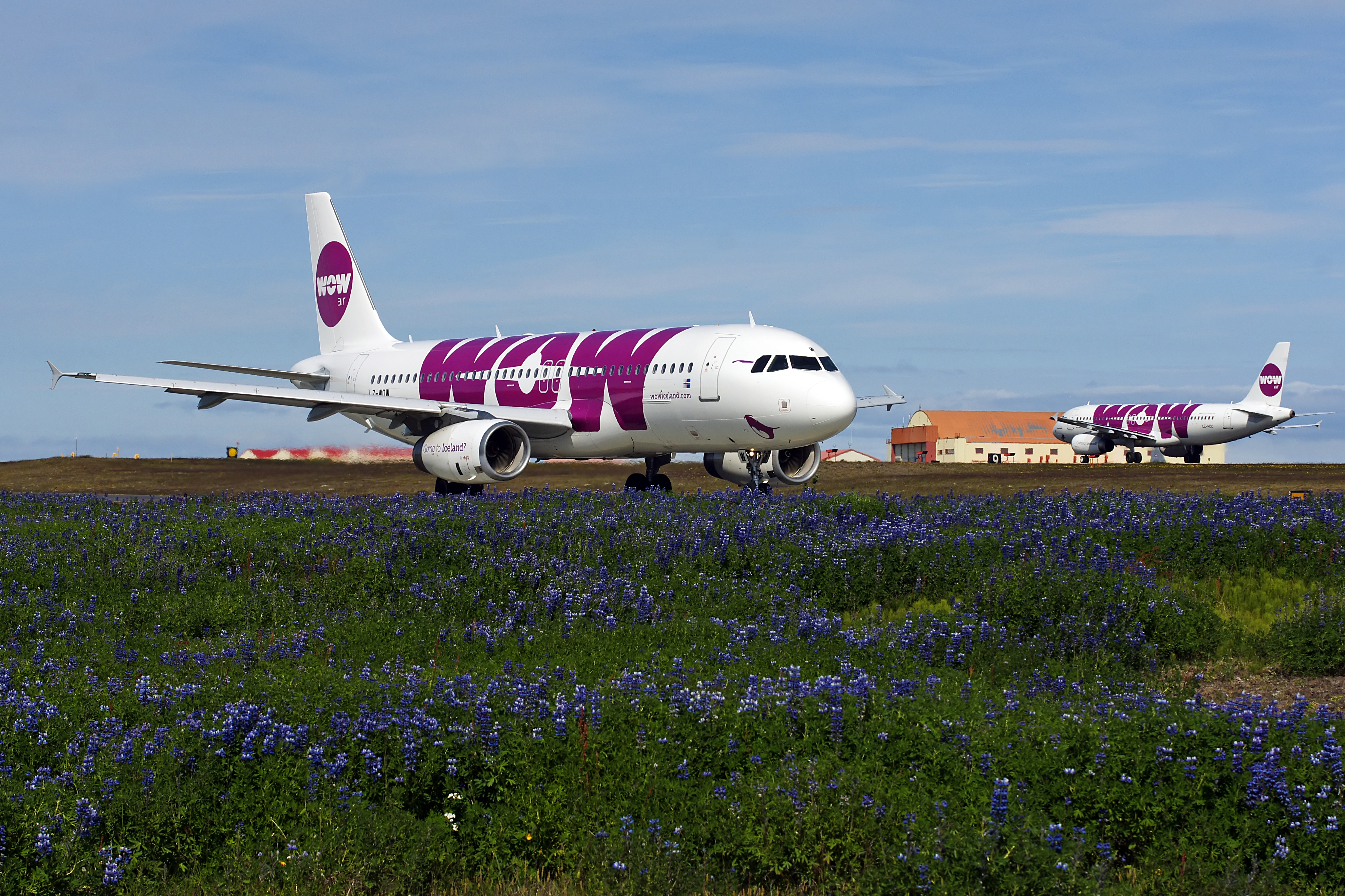 WOW Air Airbus A320s at Keflavik Airport